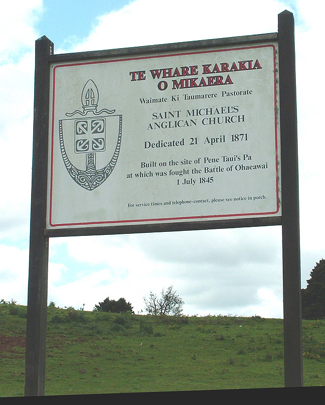 Sign at St Michael's Church, Ohaeawai, New Zealand, where the Battle Of Ohaeawai was fought in 1845. The top lines translate from Māori as Michael's (Mikaera) House (te whare) of Prayer (karakia). Photo taken by User:Moriori and released PD